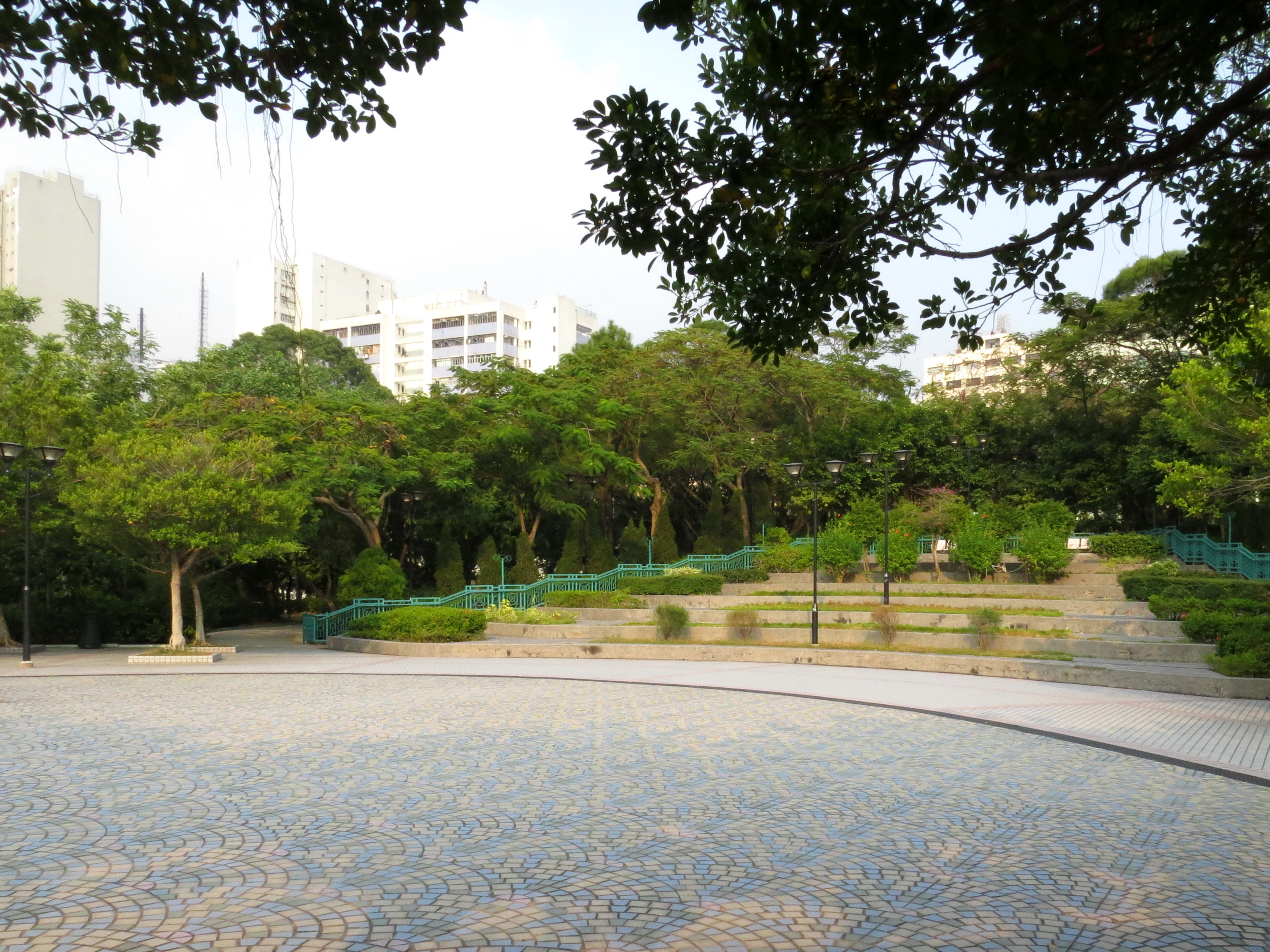 Yeung Siu Hang Garden, Tai Chi Area and Terraced Garden, Tuen Mun, New Territories, Hong Kong.